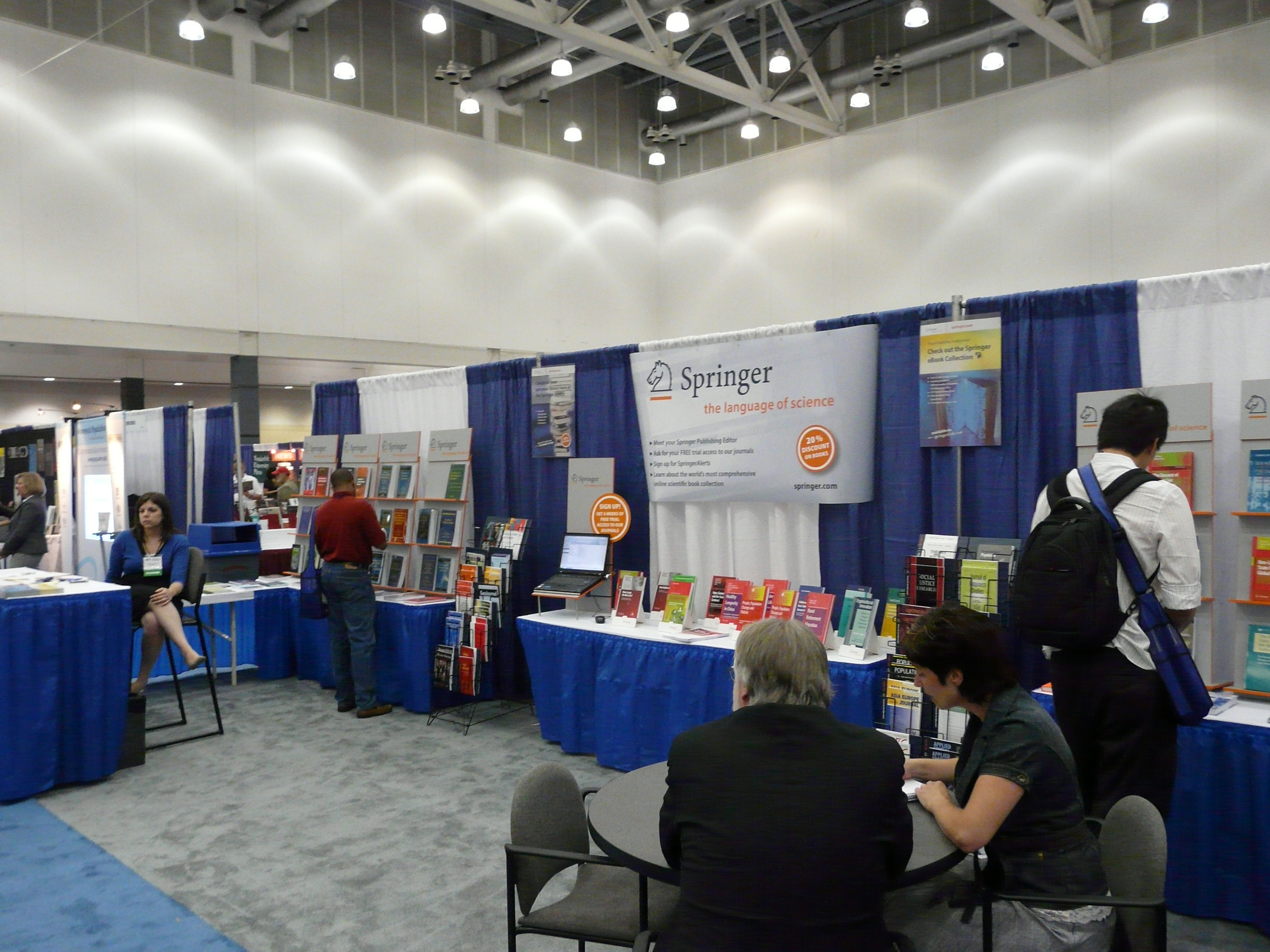 Boston. American Sociological Association conference.